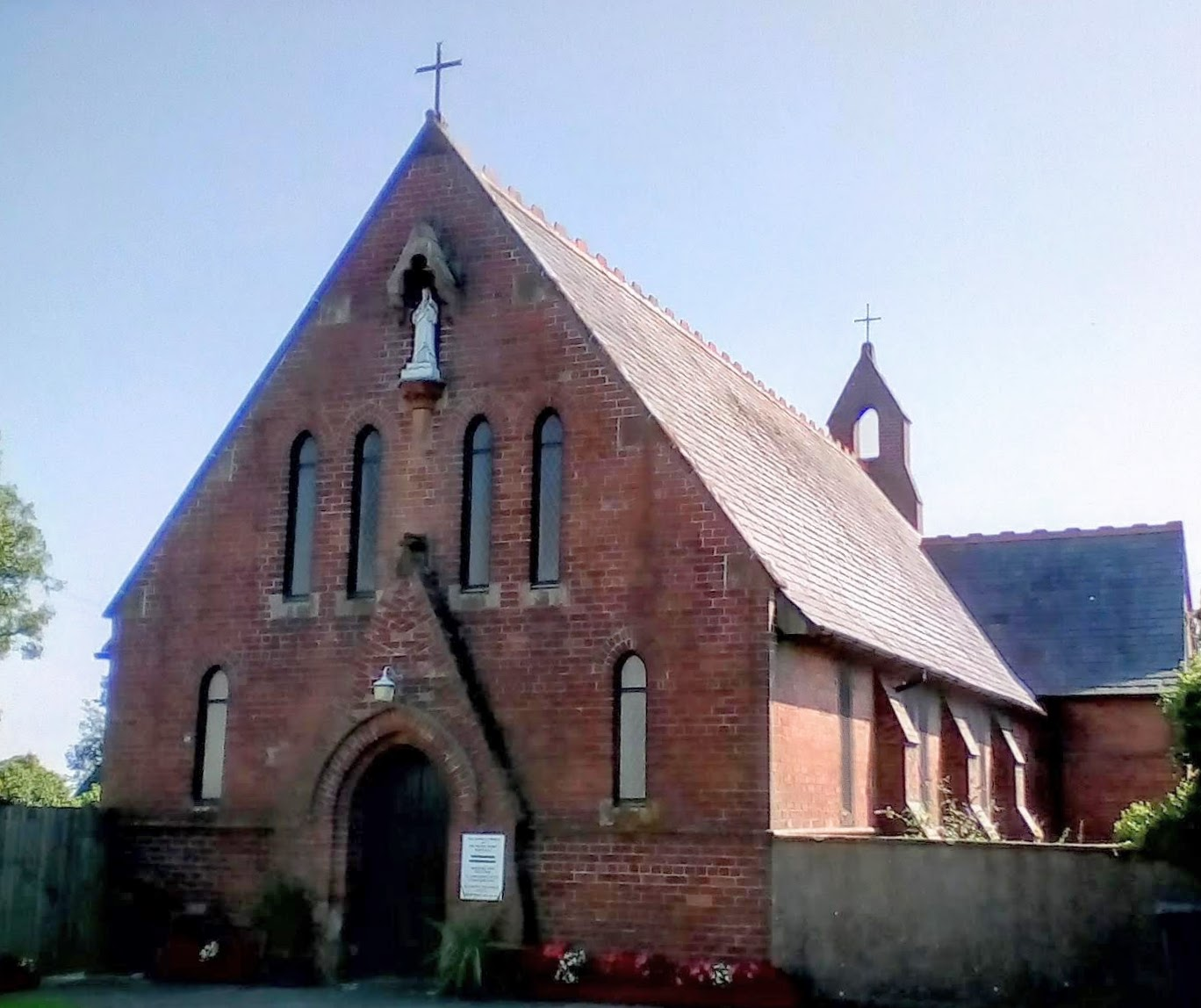 Wigtown, Sacred Heart Catholic Church, architect, John George Garden Brown, 1879. Listed Category C(S)